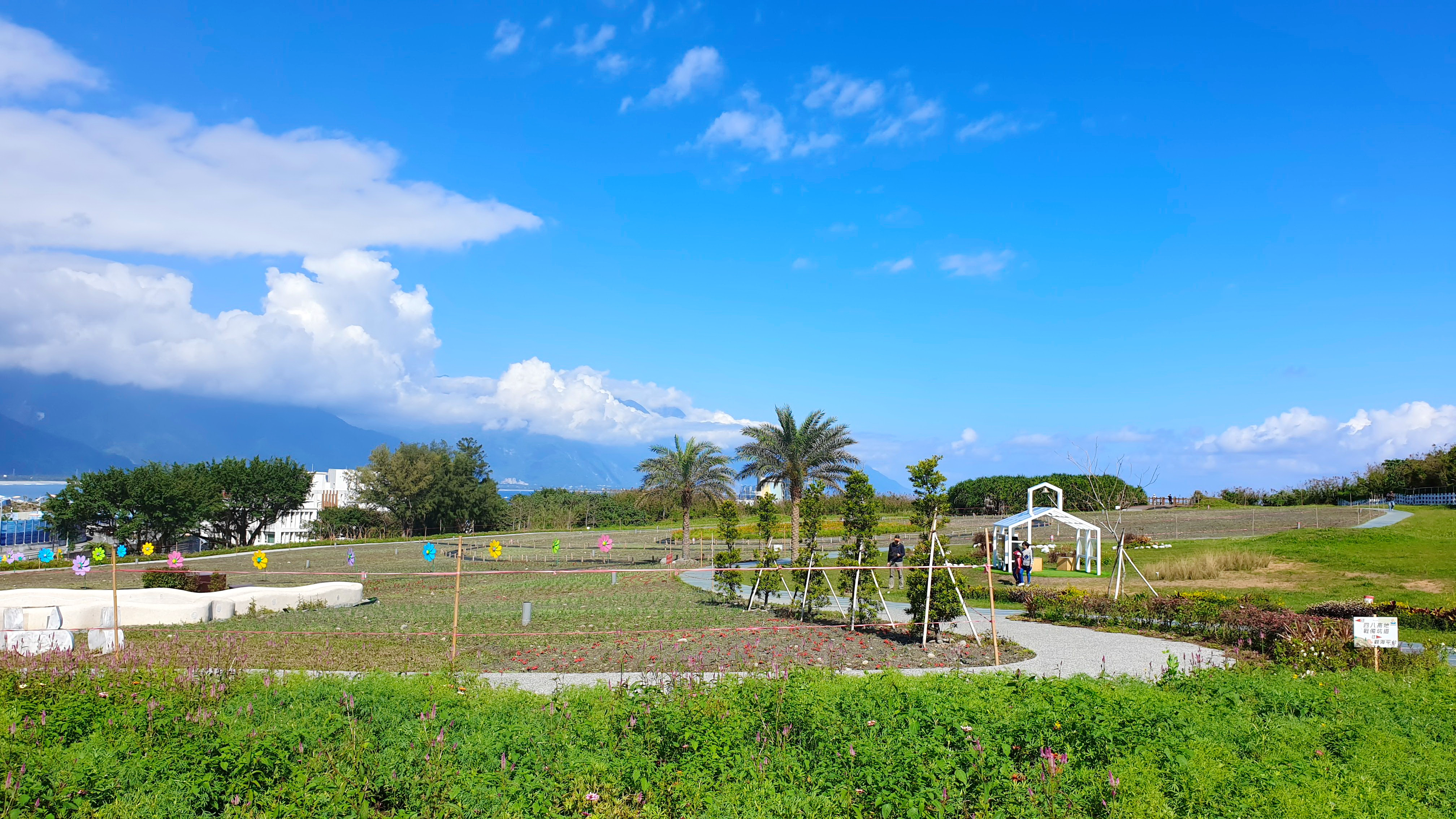 Mambo Oceanic Recreation Park, Hualien City, Taiwan.